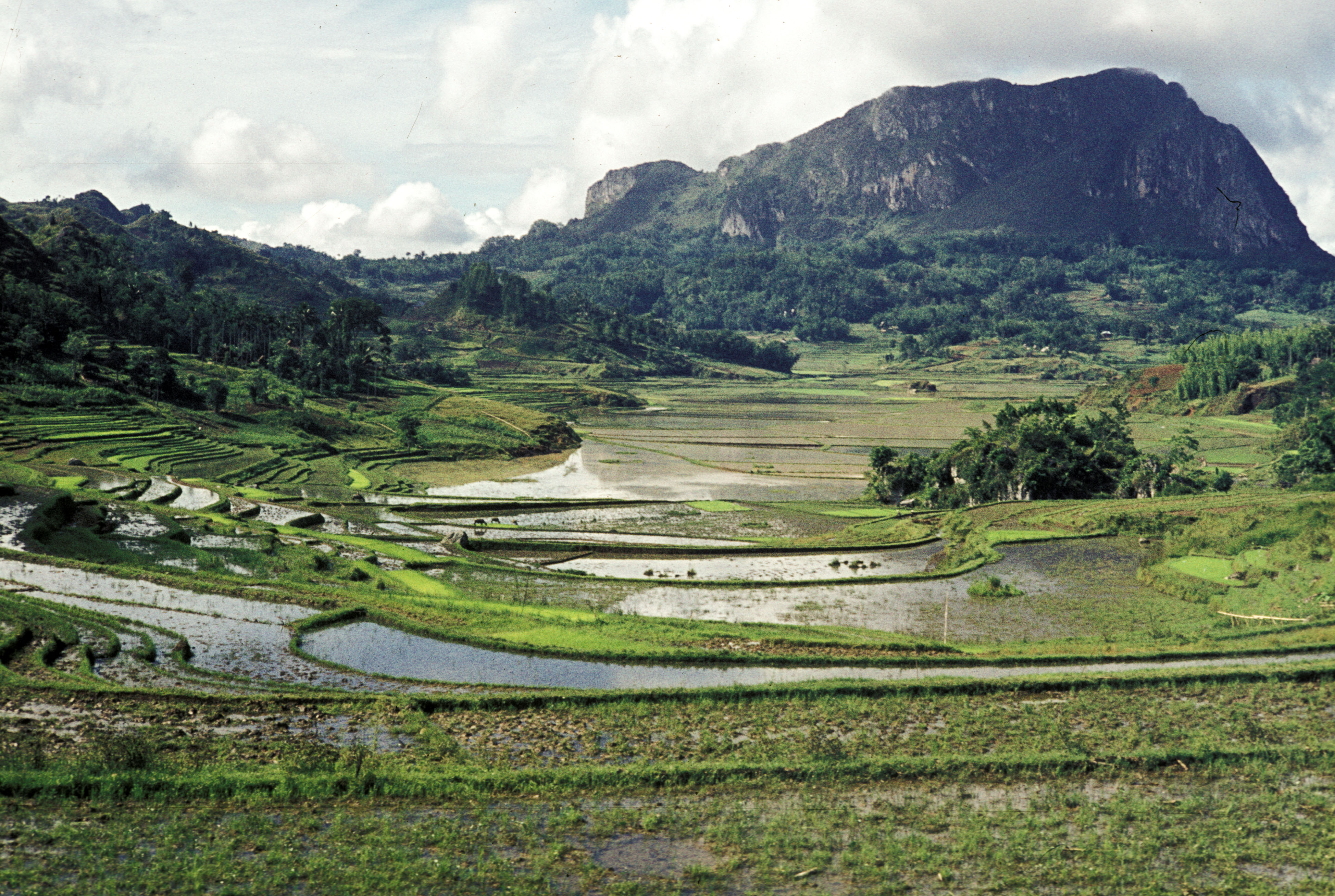 Image from the island of Sulawesi (former Celebes) in 1977; locality details unknown